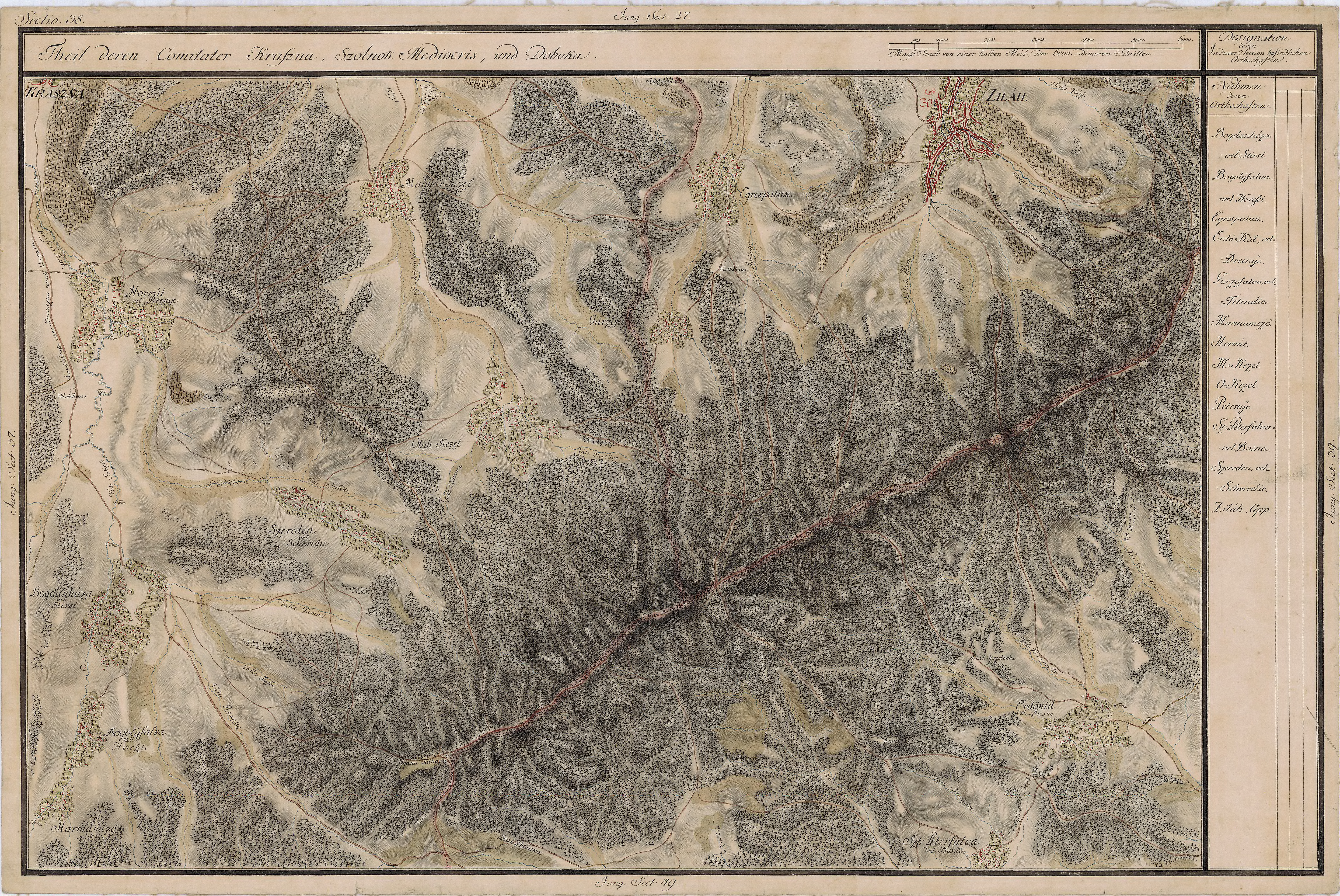 Grand Duchy of Transylvania, 1769-1773. Josephinische Landaufnahme pg.038